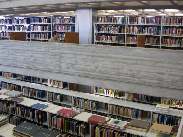 University of Haifa Library interior